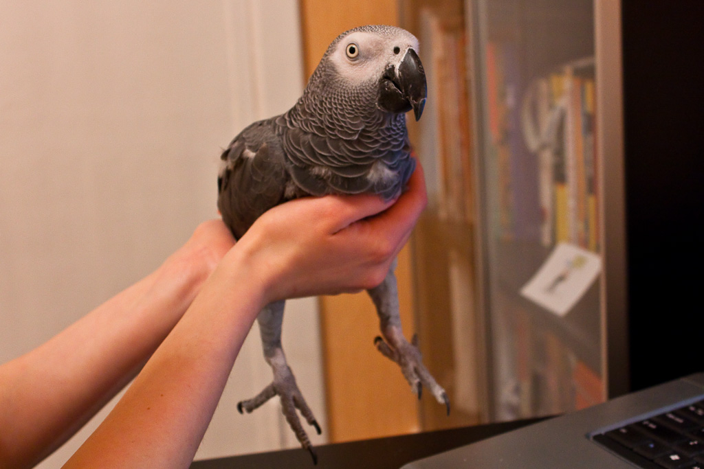 Tamed African grey parrot allows his companion hold him in hands.